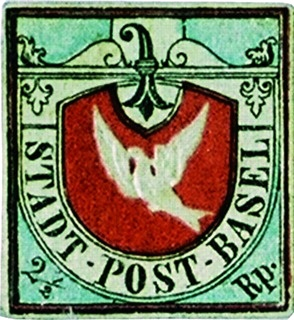 Basel Dove), Swiss stamp of 1845(Note that this example shows the "Haube auf Taube" or "cap on dove" plate error.)